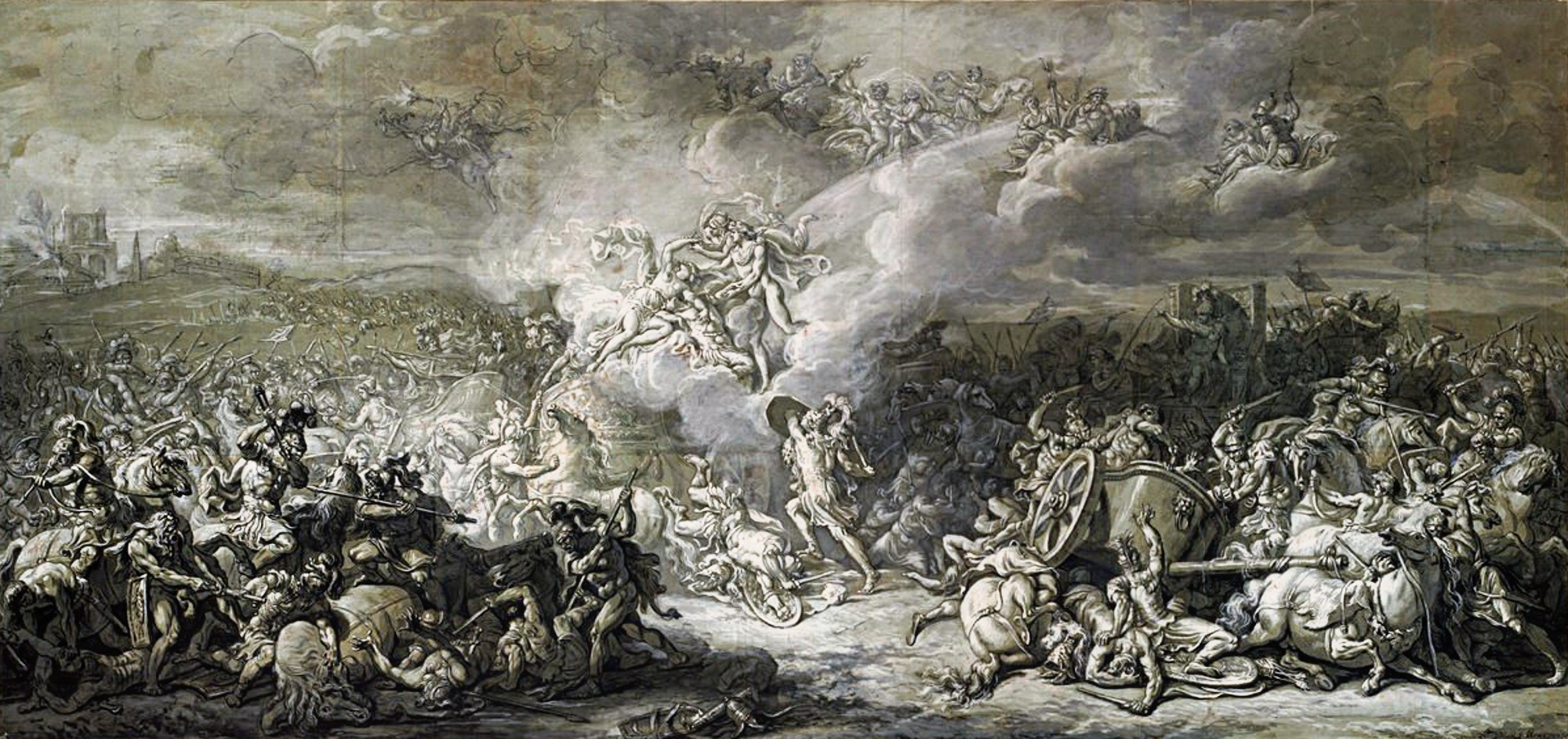 Les Combats de Diomède, or the Combat of Diomedes during the Trojan War drawing in chalk and washes by Jacques-Louis David, 1776 This version of the image has been cropped, white-balanced, and resized for deeper dpi